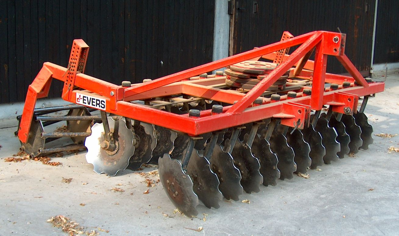 Disc harrow / Telleregge of the Dutch manufacturer Evers